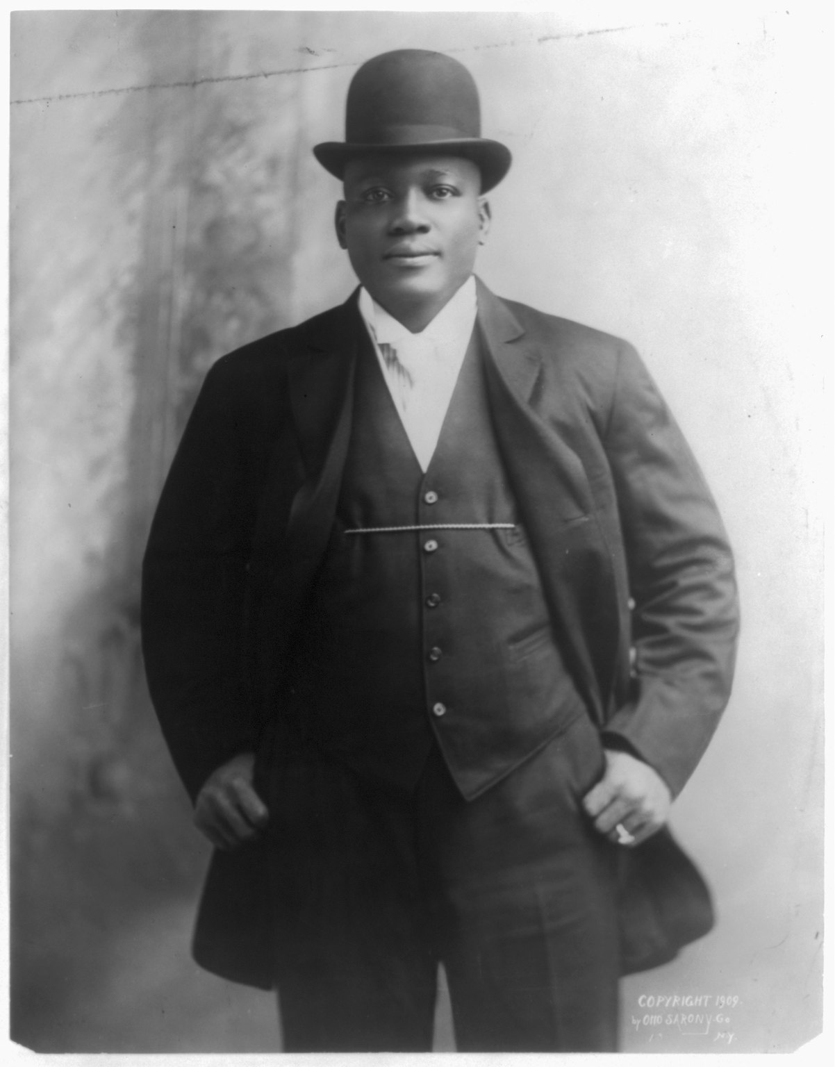 Title: Jack Johnson Abstract/medium: 1 photographic print.